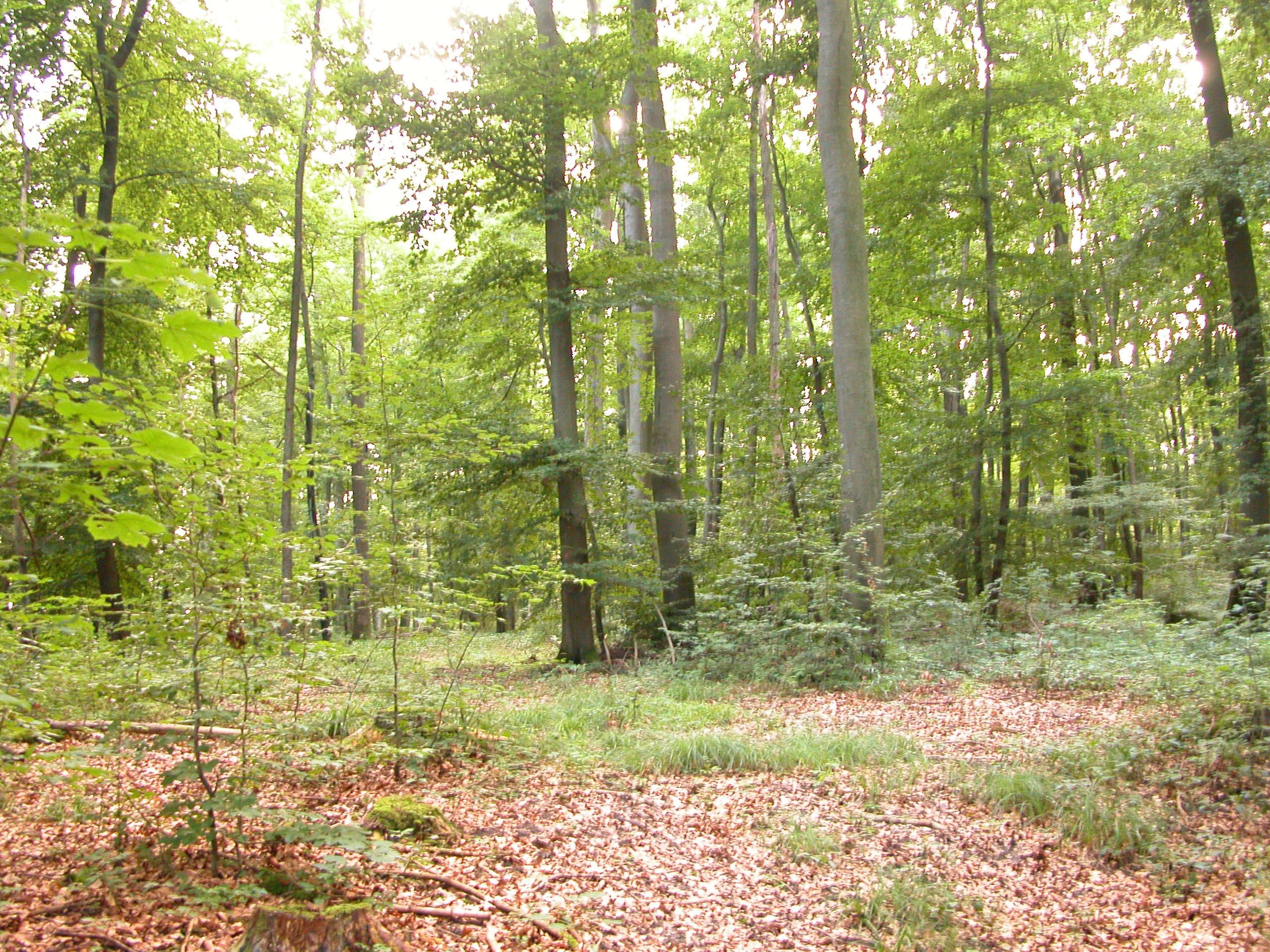 Temperate broadleaf and mixed forests, Bliesgau, Germany